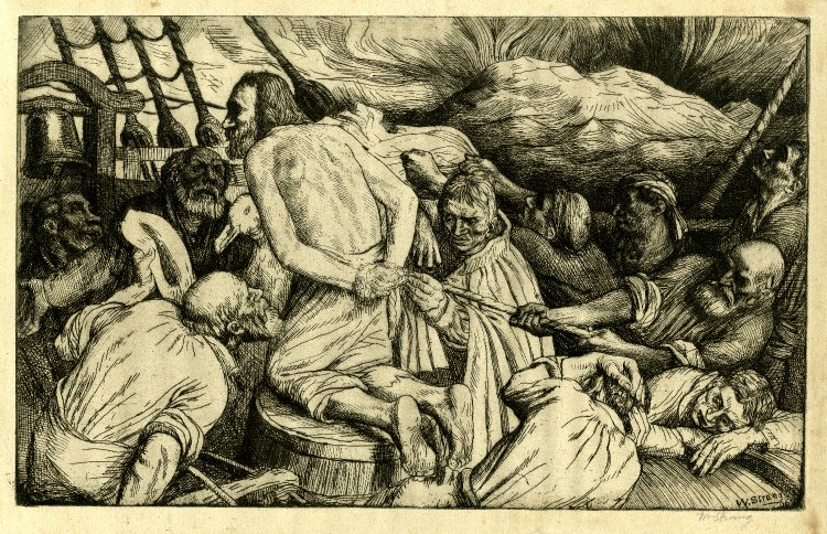 "The Albatross about my Neck was Hung," etching, by the British artist William Strang. Published in "The Ancient Mariner," by Samuel Taylor Coleridge, published by Robert Dunthorne. 231 mm x 368 mm. Courtesy of the British Museum, London.